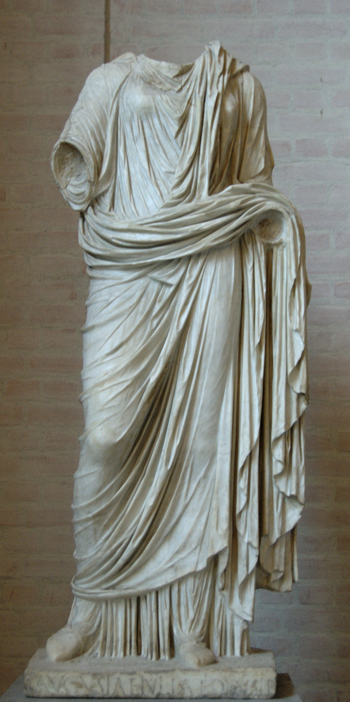 Statue of Livia, after 14 CE. Inscription: AUGUSTAE IULIAE DRUSI F[iliae] / “[In honour of] Augusta Iulia, daughter of Drusus”.